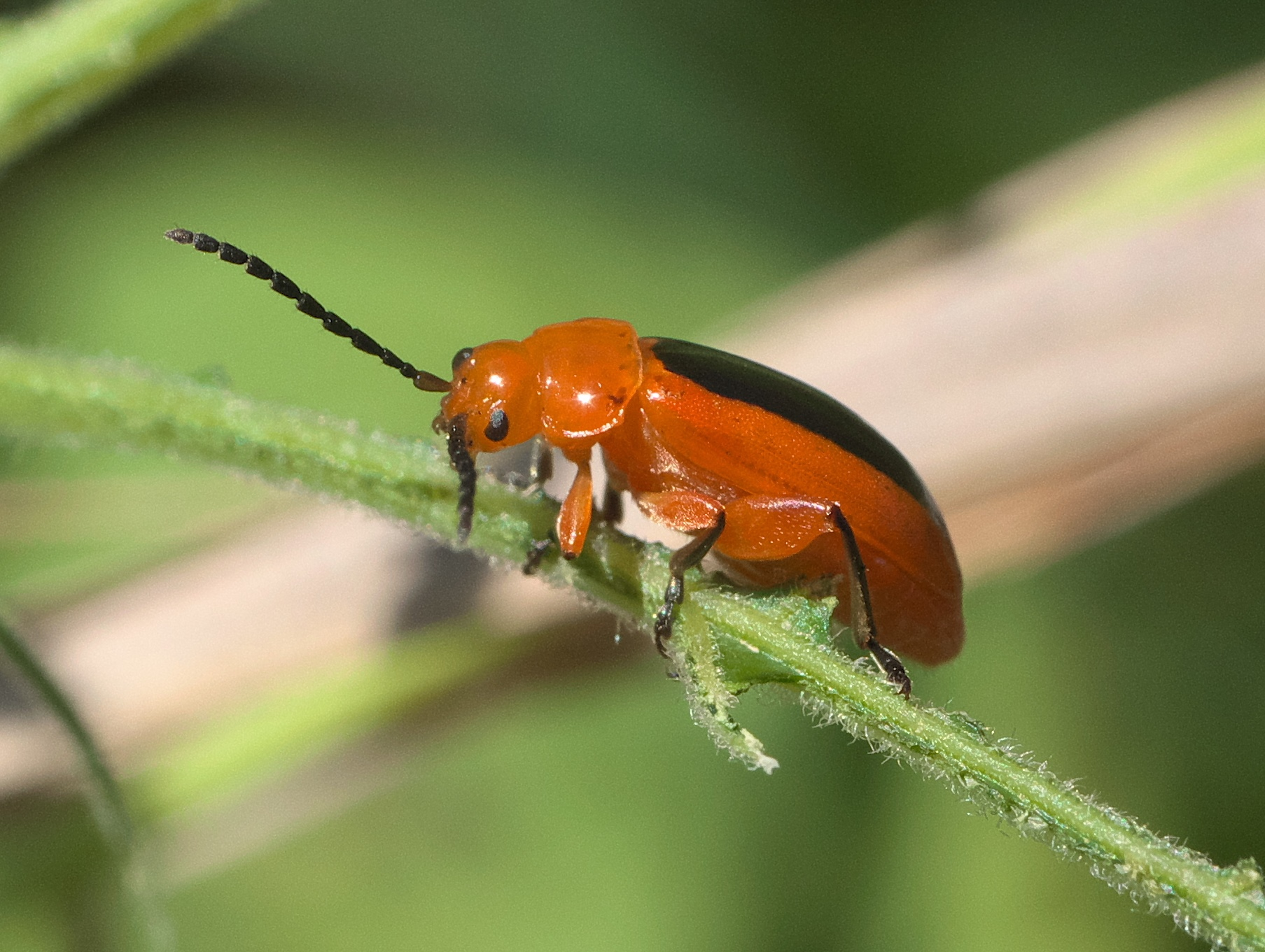 Disonycha discoidea, Passionflower Flea Beetle, ID Confidence: 90